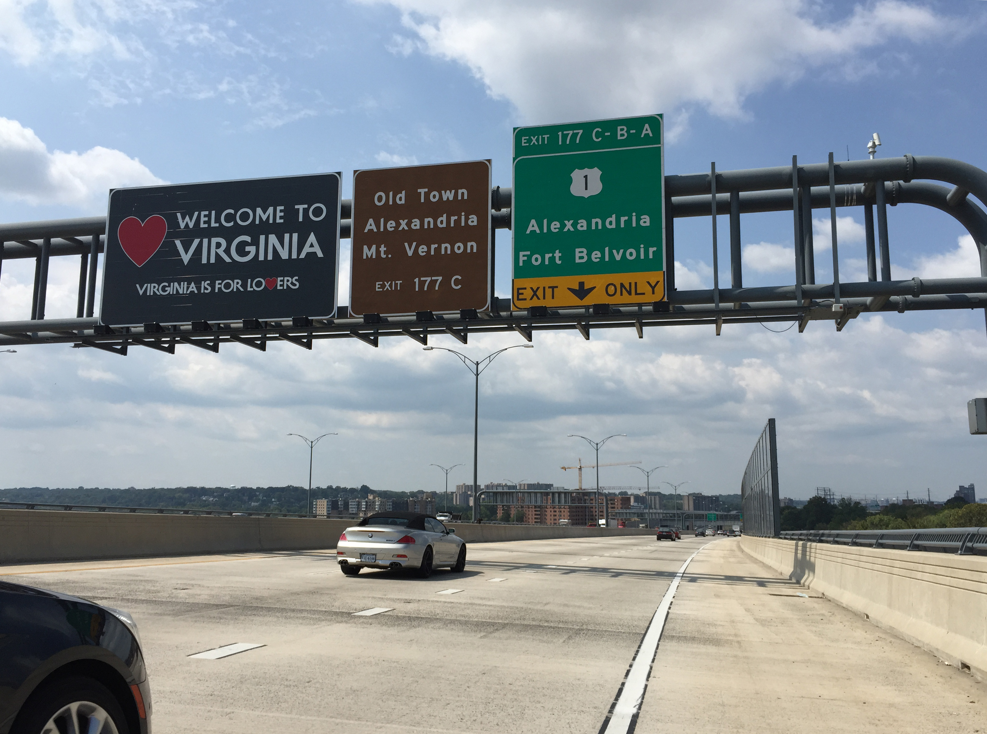 "Welcome to Virginia" sign along southbound Interstate 95 and the westbound inner loop of the Capital Beltway (Interstate 495) as it crosses the Potomac River on the Woodrow Wilson Bridge in Alexandria, Virginia